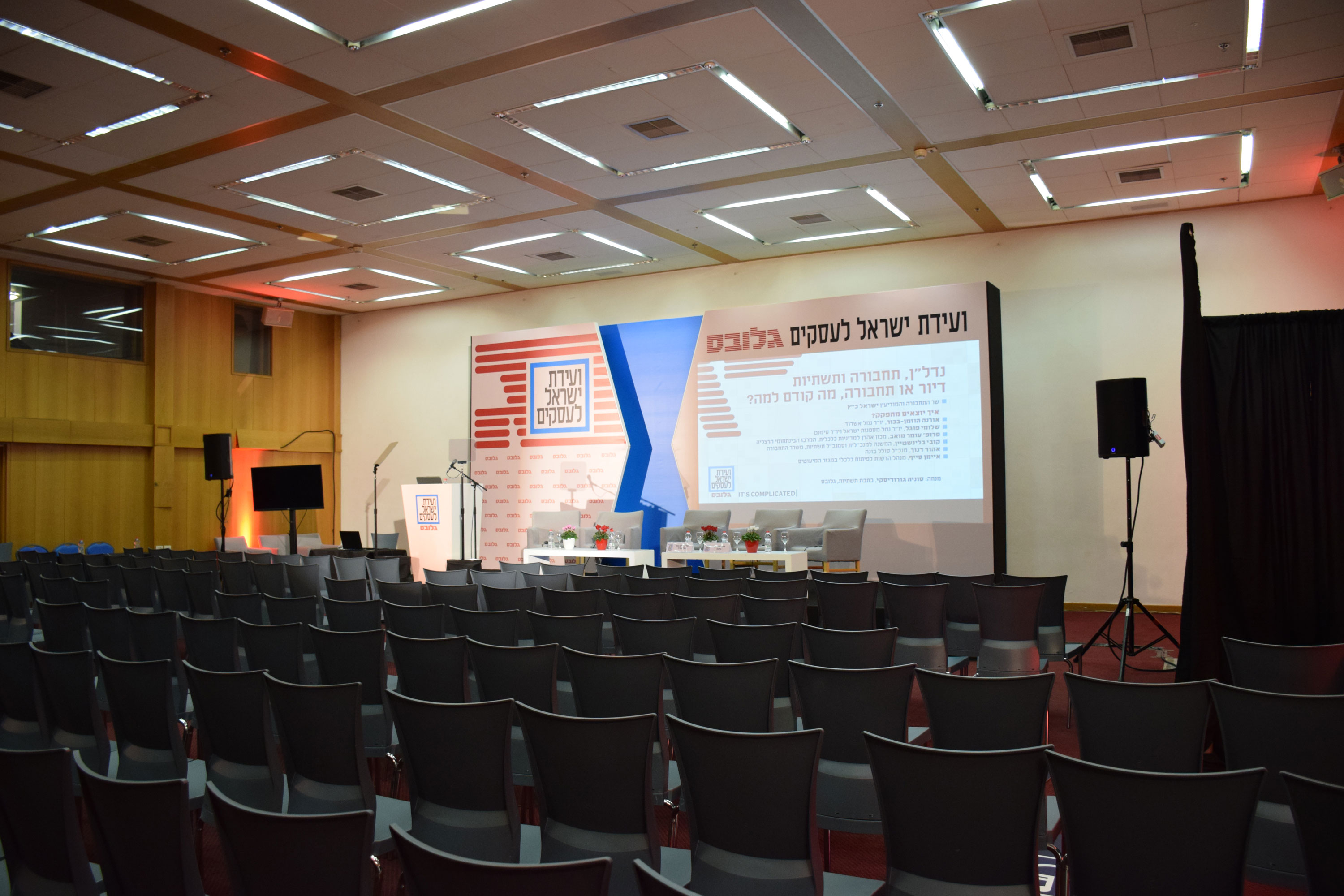 Globes Israel business conference 2018 at International Convention Center Binyenei HaUma empty confrence room